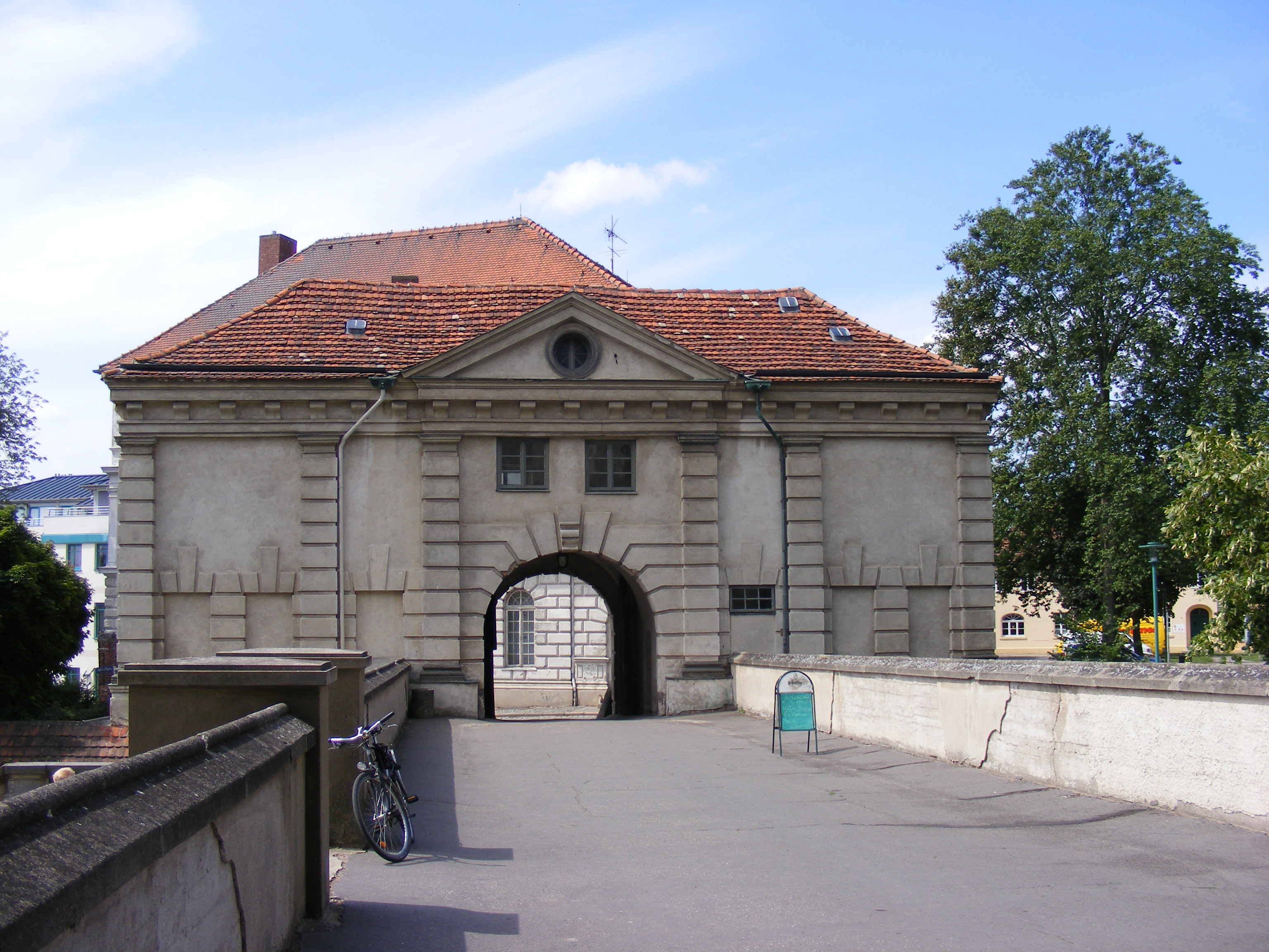 Torhaus, Castle in Guestrow, Mecklenburg by Charles Dieussart